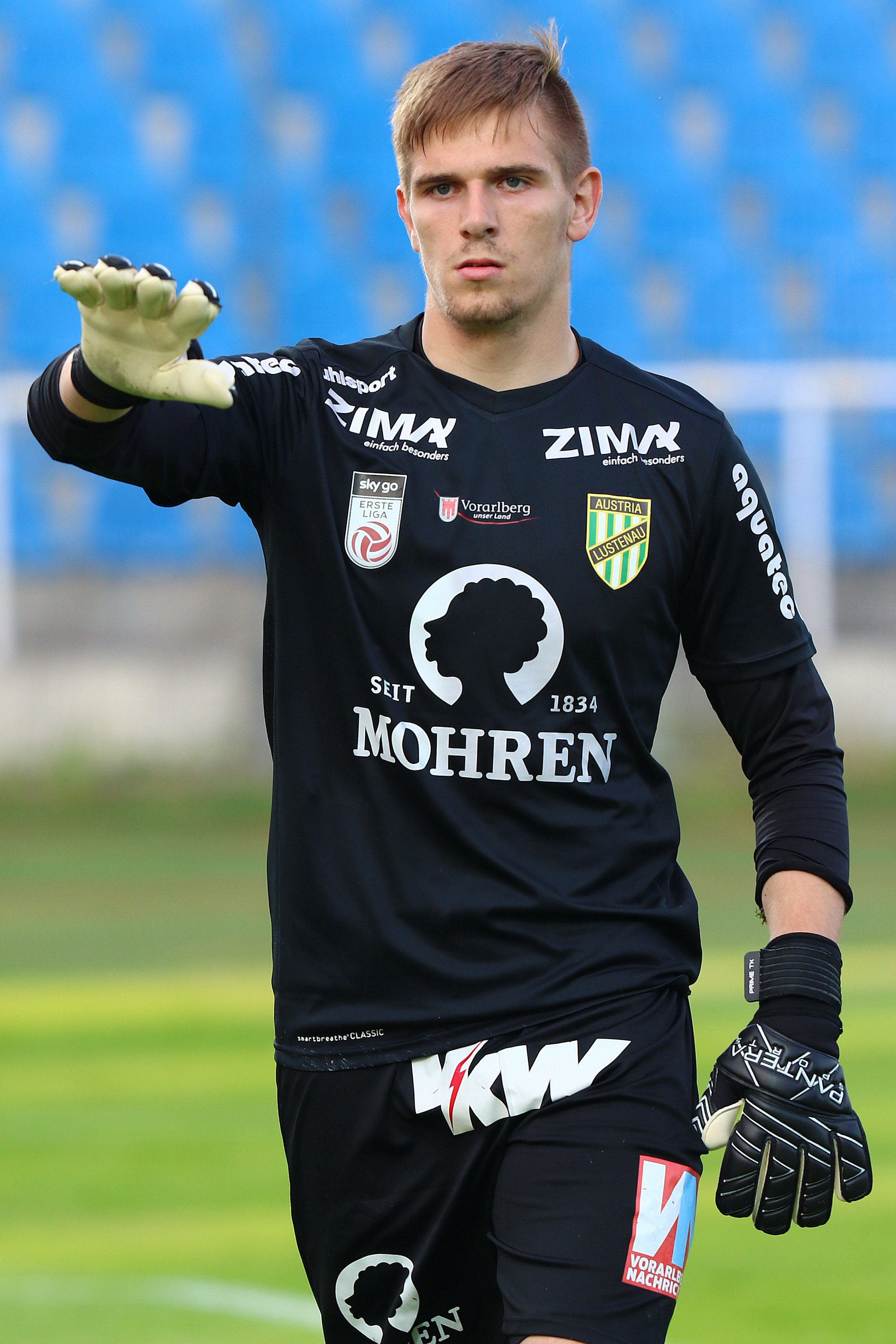 Football-championship Erste Liga 2017–18 - SC Wiener Neustadt (white shirts) vs. SC Austria Lustenau (green shirts) 2-2. – The photo shows the goalkeeper of SC Austria Lustenau Alexander Sebald.